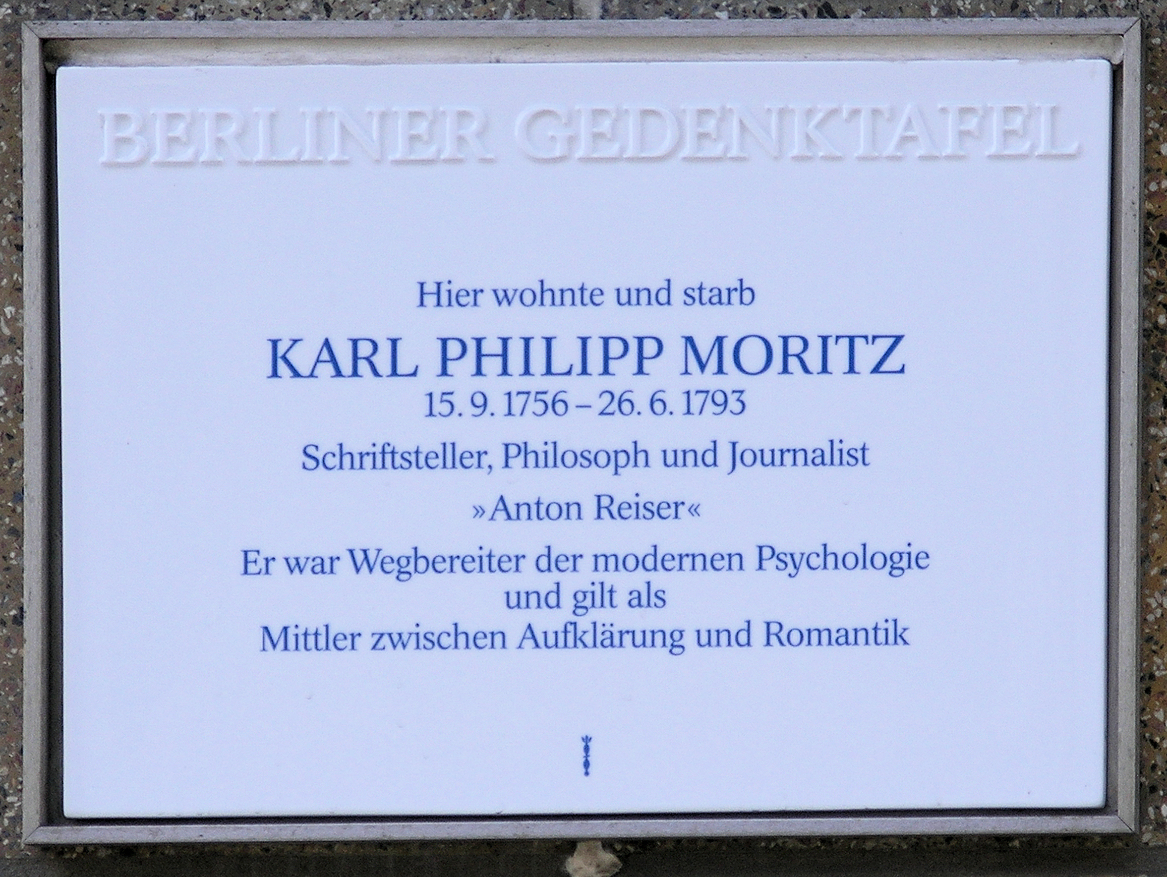 Berlin memorial plaque, Karl Philipp Moritz, Münzstraße 7-11, Berlin-Mitte, Germany Koordinate:52°31′27.7″N 13°24′31.1″E / 52.524361°N 13.408639°E